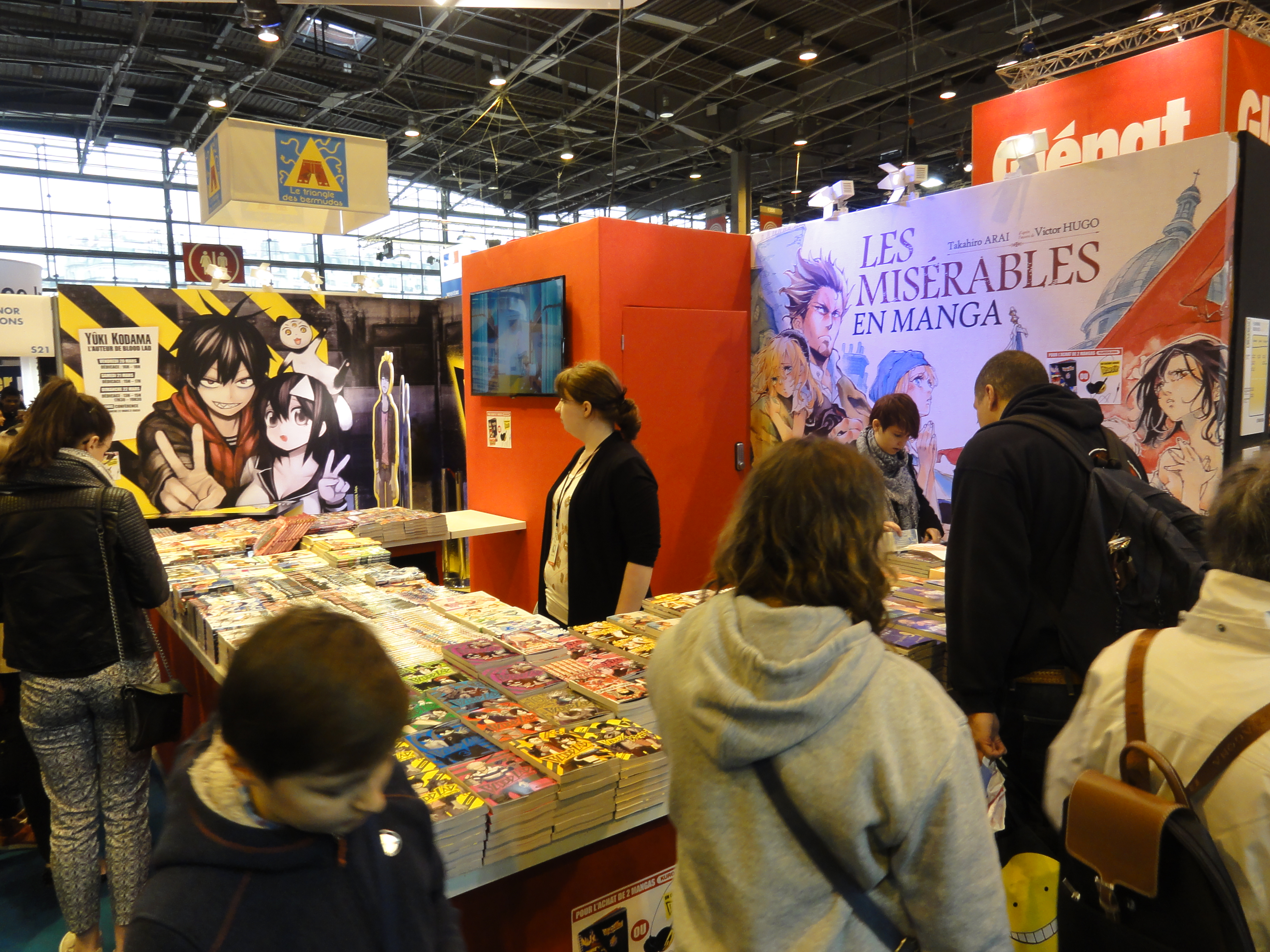 Paris, Salon du Livre 2015 (06) Les Misérables et d'autres manga's